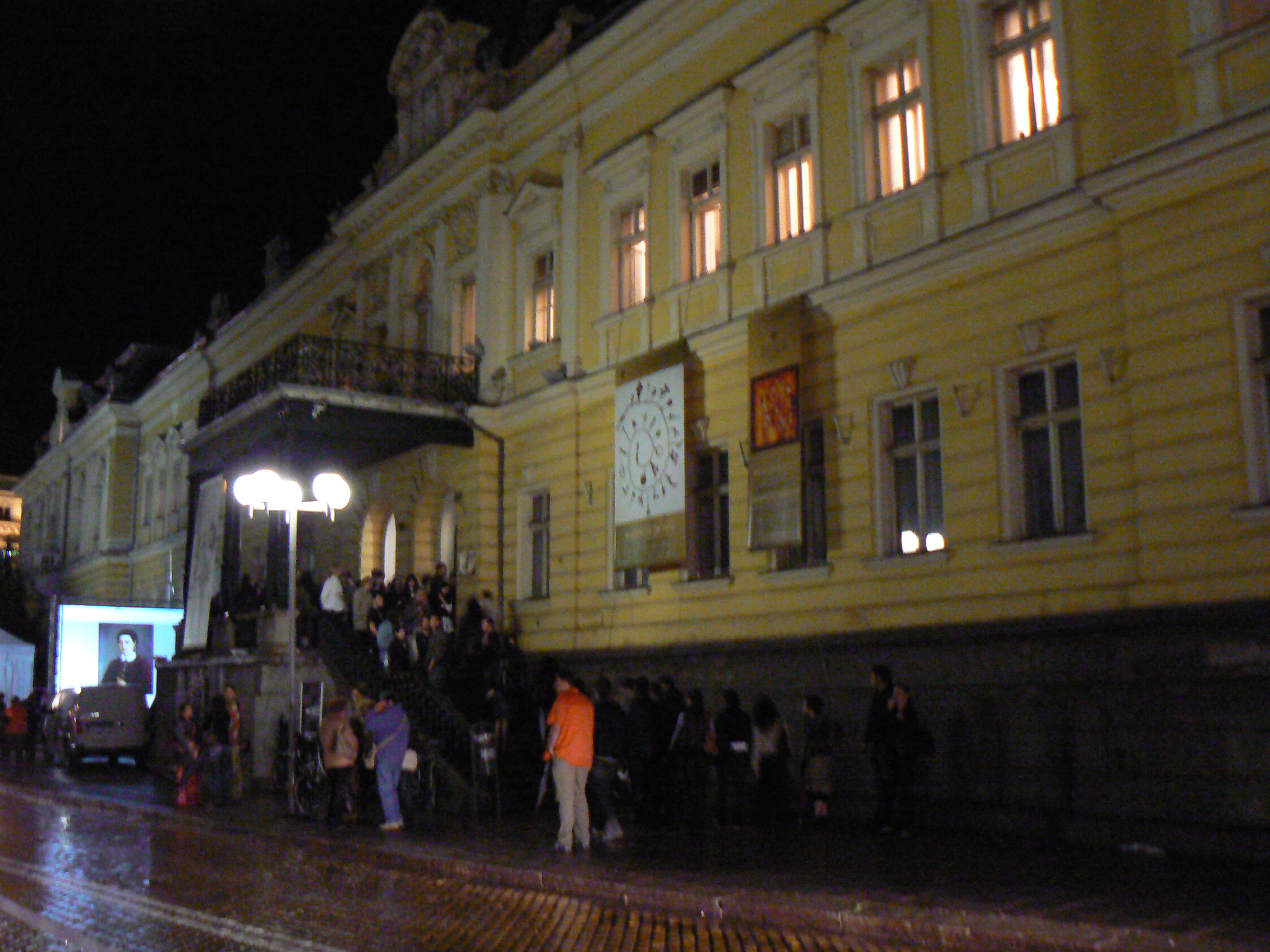 Night of Museums and Galleries, 15 May 2010 in Sofia, Bulgaria: The National Art Gallery and the National Ethnographic Museum